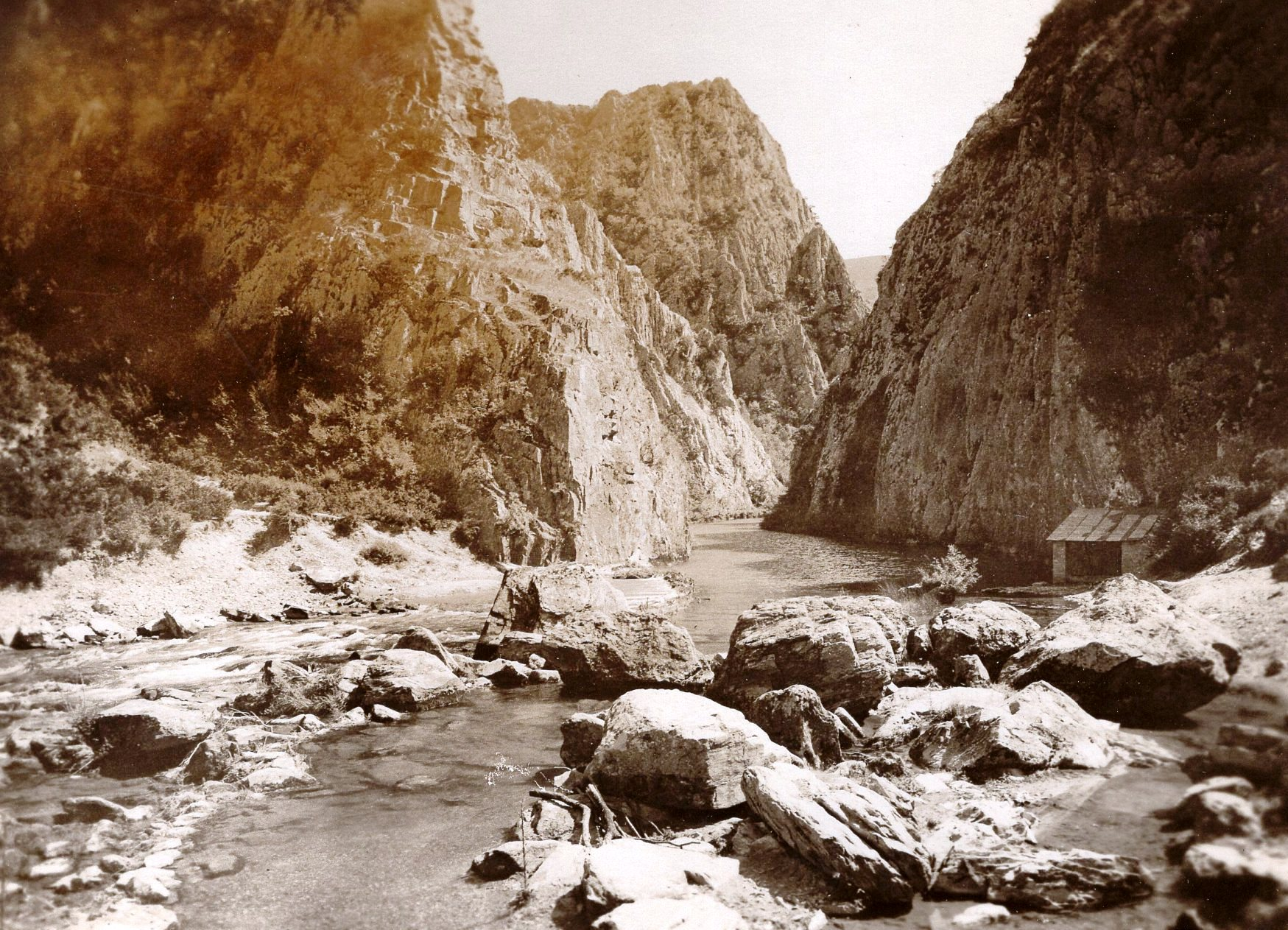 Gorge of the river Treska, near the monastery of Matka. Photo taken in 1930s This media file is produced by Wikipedian in Residence in Category:Wikipedian in Residence at DARM in 2016.